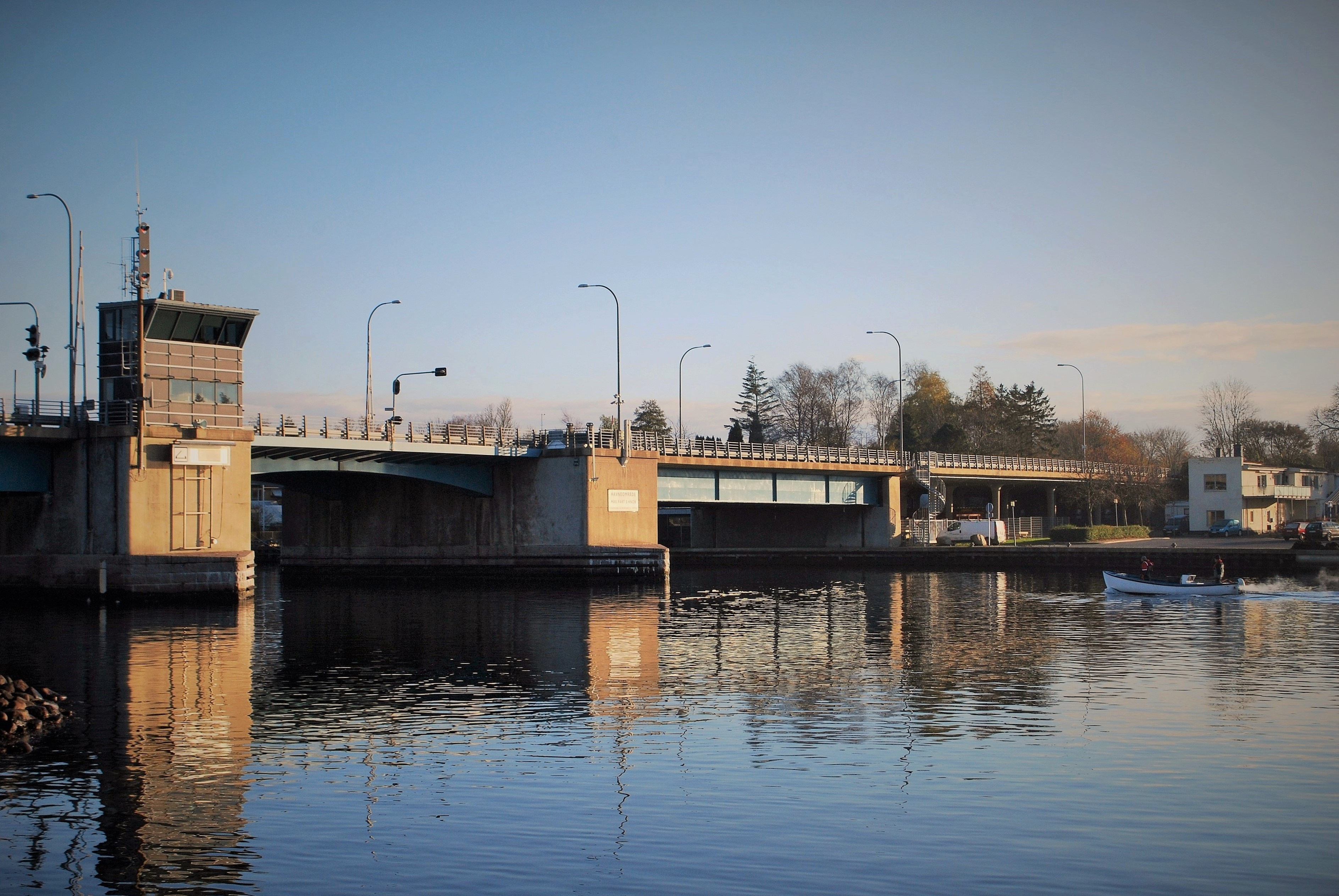 Egernsund Bridge is a Danish bascule bridge that runs between cities Alnor and Egernsund, Jylland